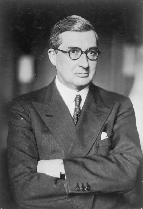 British Political Personalities 1936-1945 The Churchill Coalition Government 11 May 1940 - 23 May 1945: Sir James Grigg, a civil servant who was made Secretary of State for War in February 1942.